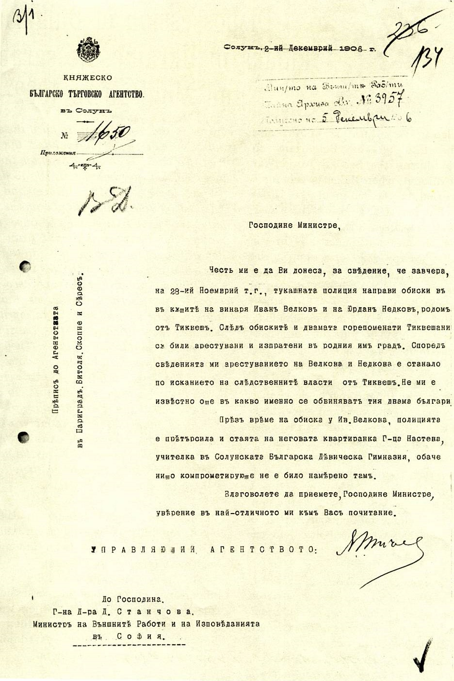 Report from the Bulgarian Trade Agency in Thessaloniki.